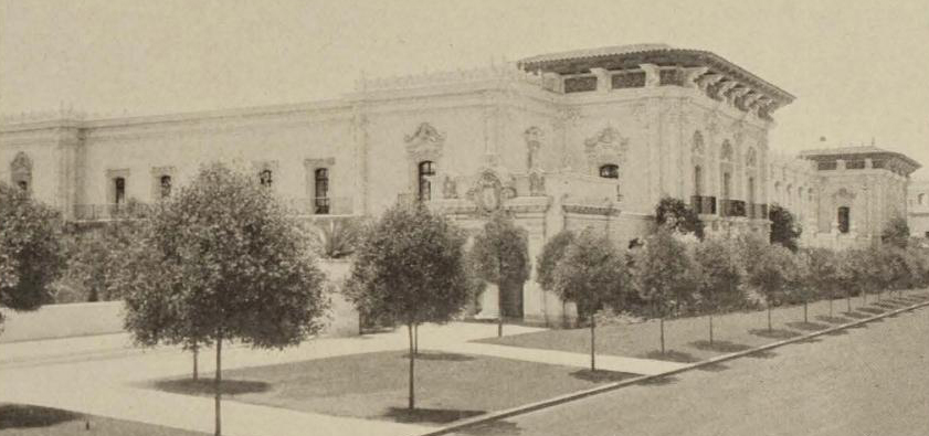 Commerce and Industries Building during the 1915 Panama-California Exposition in Balboa Park, San Diego, California.